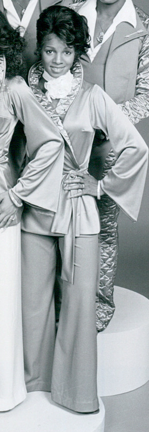 Rebbie Jackson, 1977. Cropped from File:Jacksonstvshow.jpg.